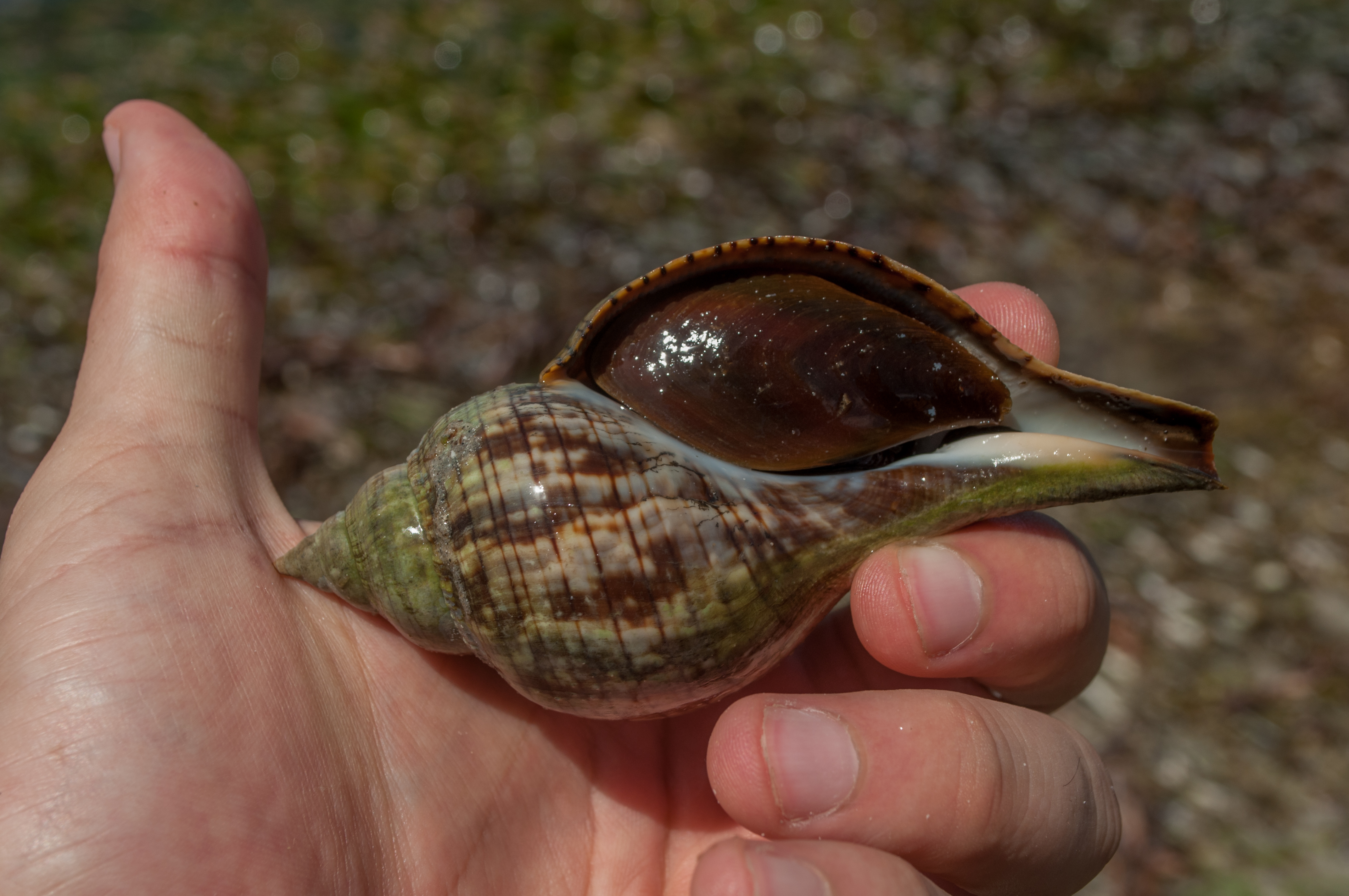 Fasciolaria tulipa (Linnaeus, 1758). Locally called Perra